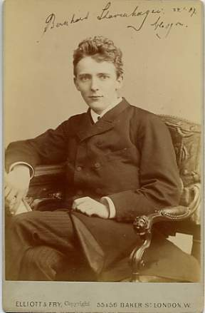 Bernhard Stavenhagen seated. Caption at bottom of photograph shows the photography studio of Elliott & Fry.